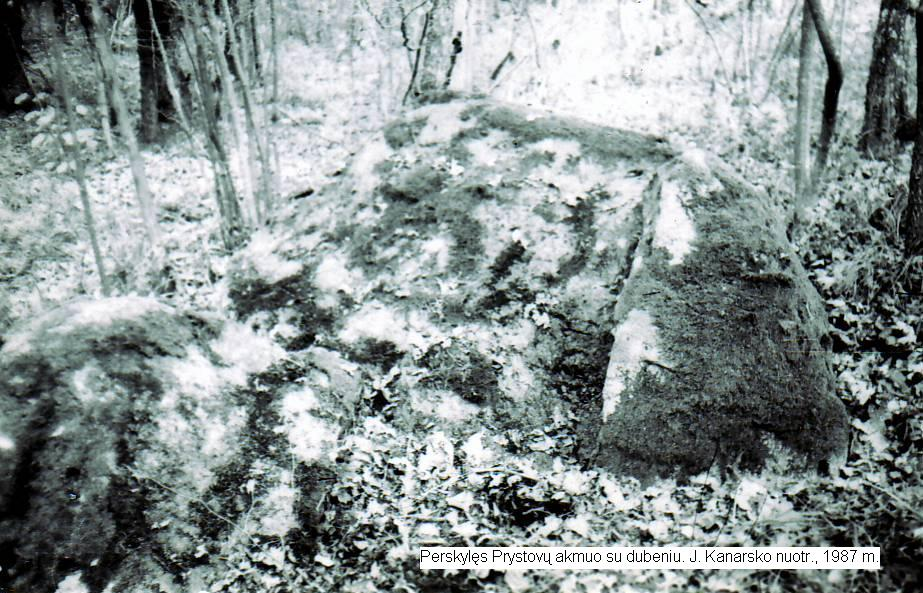 Prystovai, Kretinga district, Lithuania